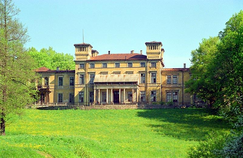 Krzyszowice Palace in Poland